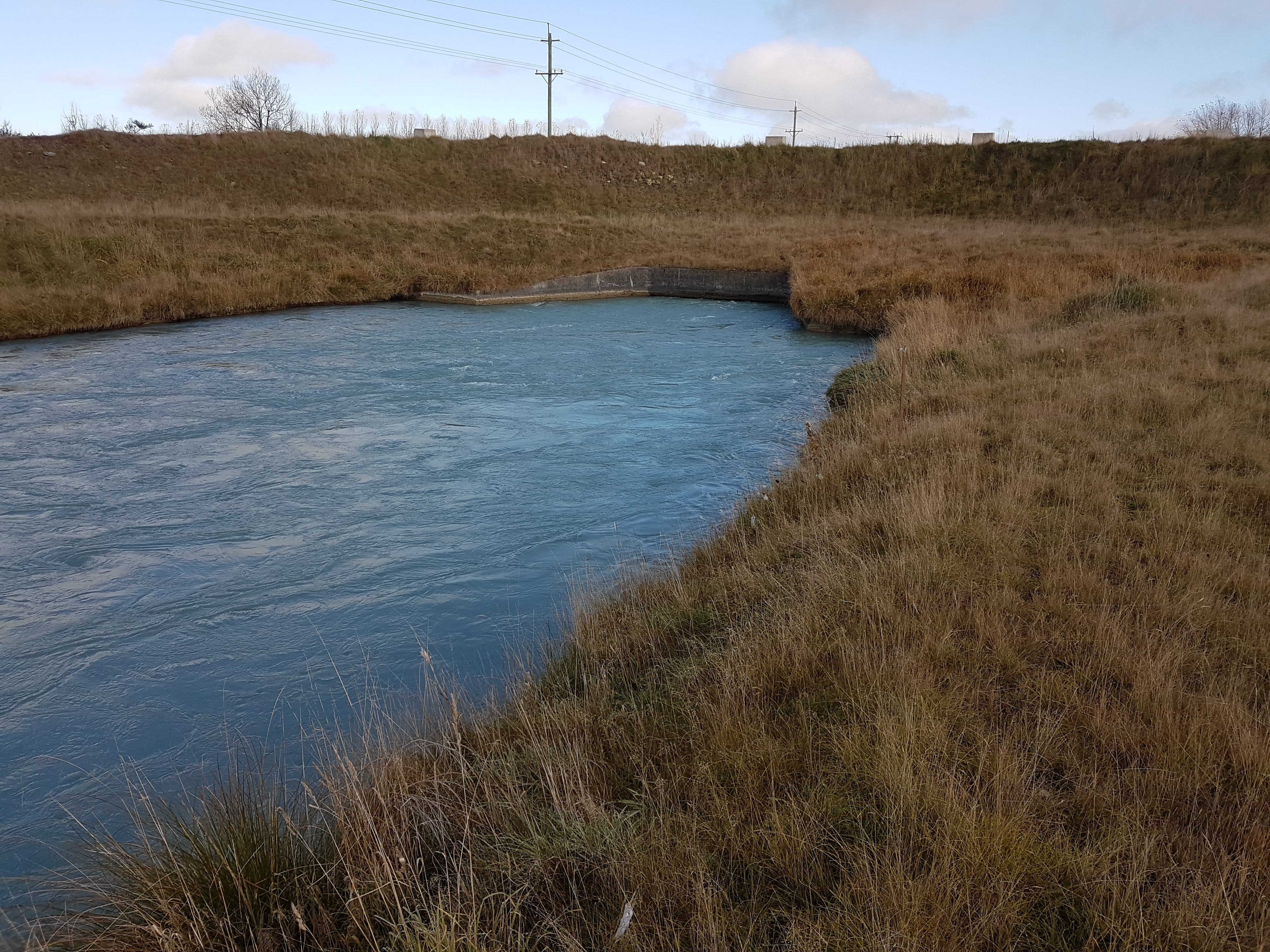 This image forms part of a series showing aspects of the canal and associated structures that were constructed to divert water from the Rangitata river for irrigation and power generation purposes. The canal terminates at the Highbank power station which releases the water into the Rakaia river.